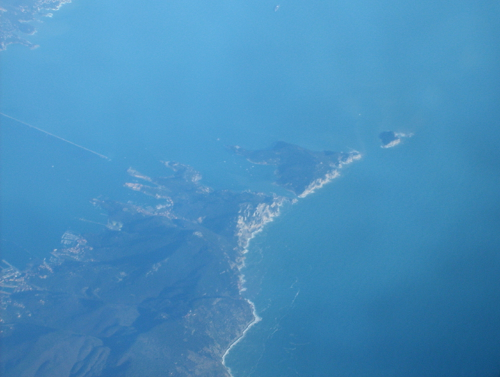 Islands of Palmaria and Tino, Italy, from above